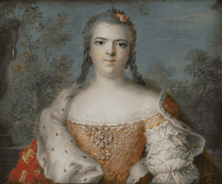 Louise Élisabeth of France (1727-1759), Duchess of Parma